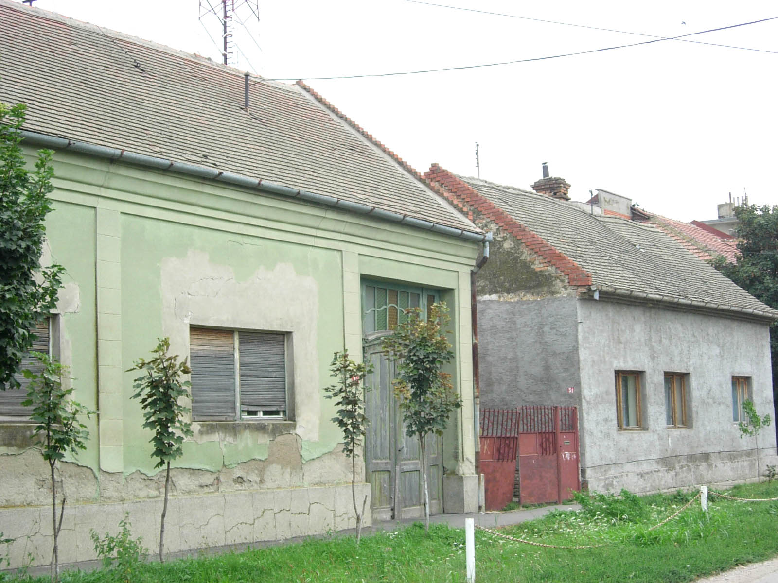 Old houses in Sečanj.